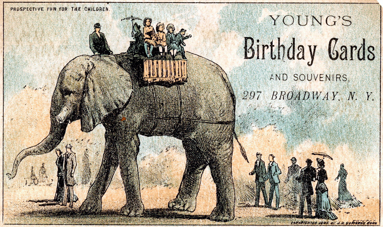 Advertising card featuring Young’s birthday cards featuring Jumbo carrying children